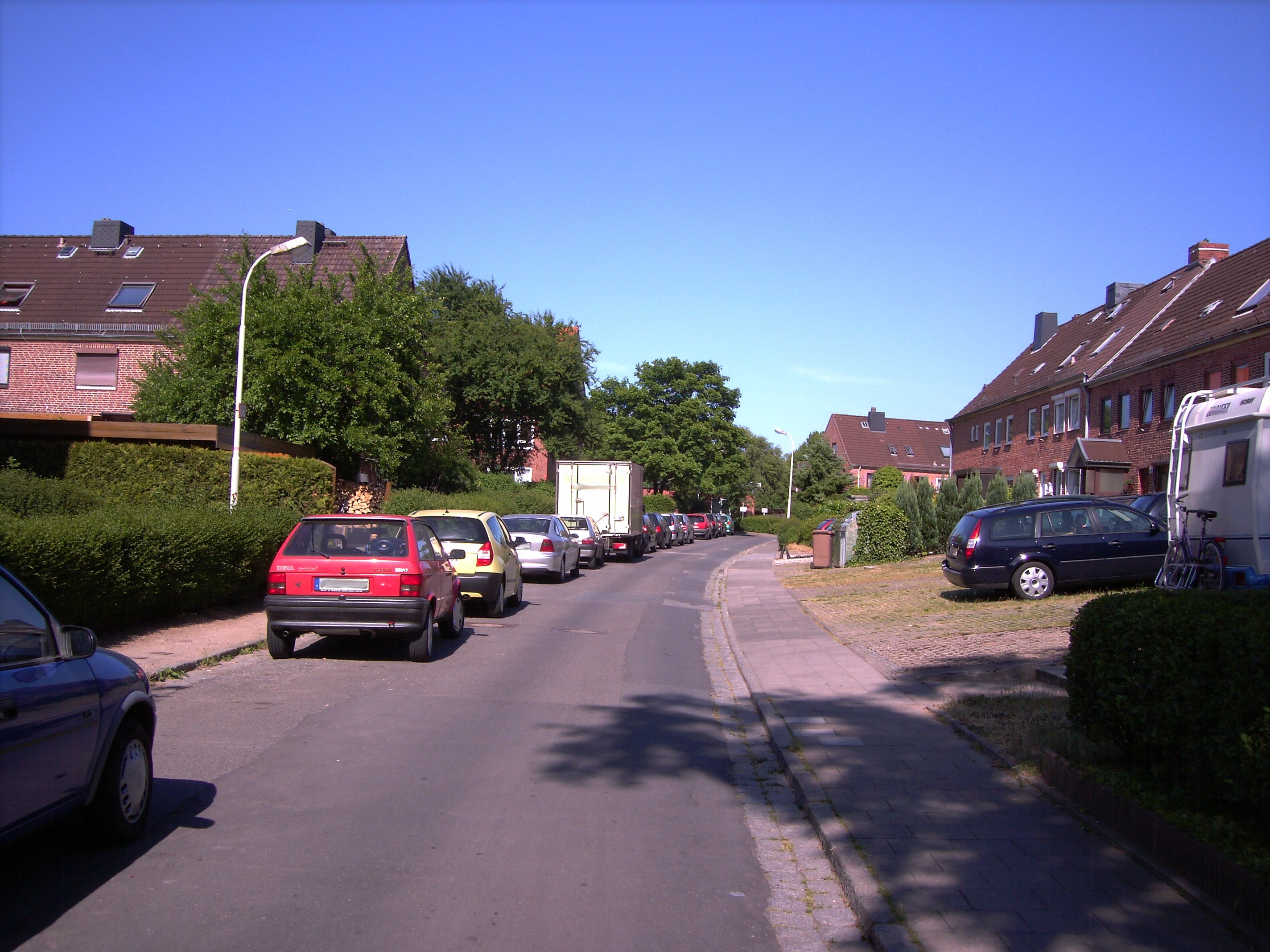 Karlsbader Straße (Karlsbad street) in Kiel-Elmschenhagen (-South), middle section, view towards North